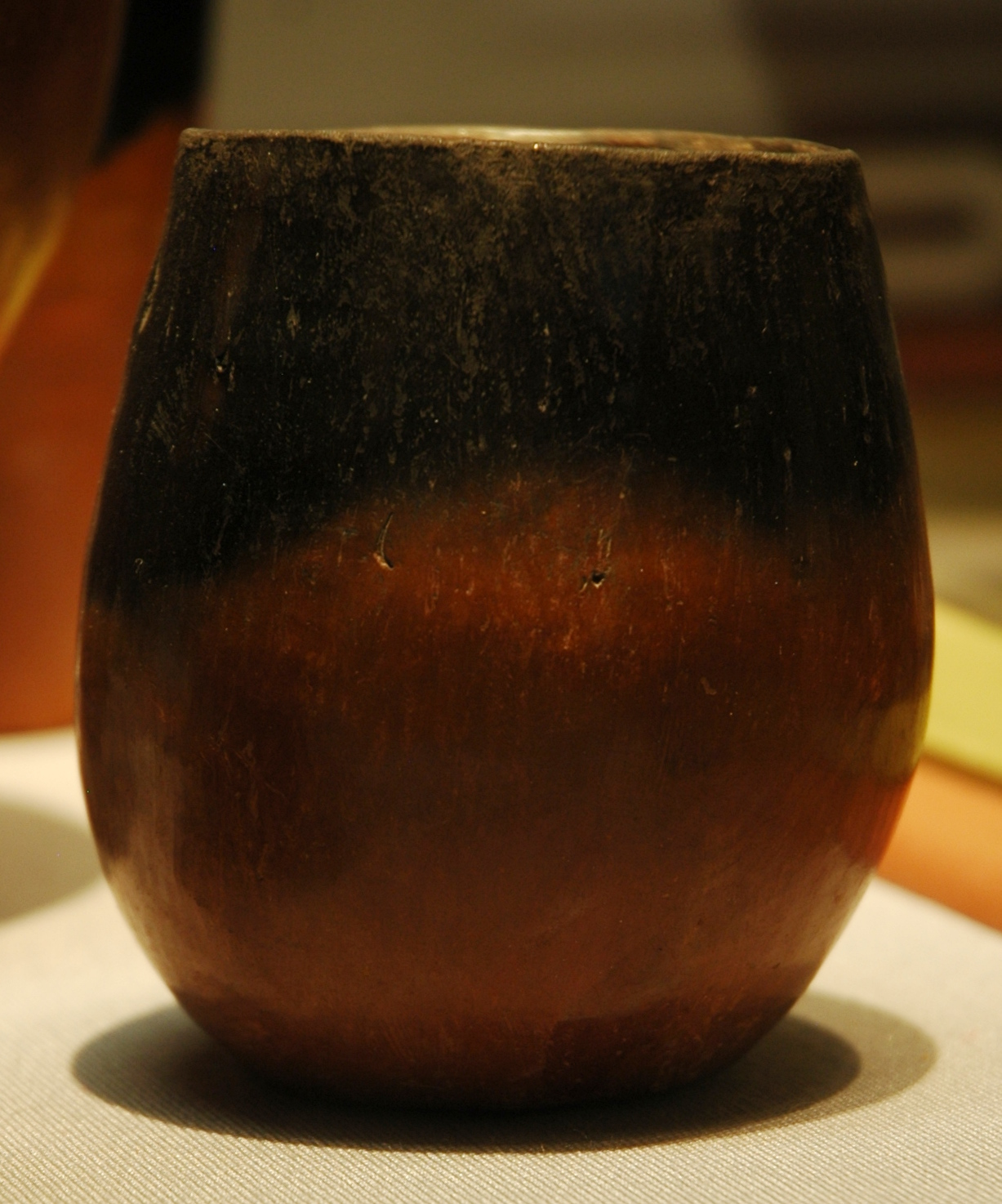 Altägyptische Keramik; Black-topped Ware; Nilton A; Naqada Ic-IIb (nach Werner Kaiser); rot poliert, schwarz geschmaucht